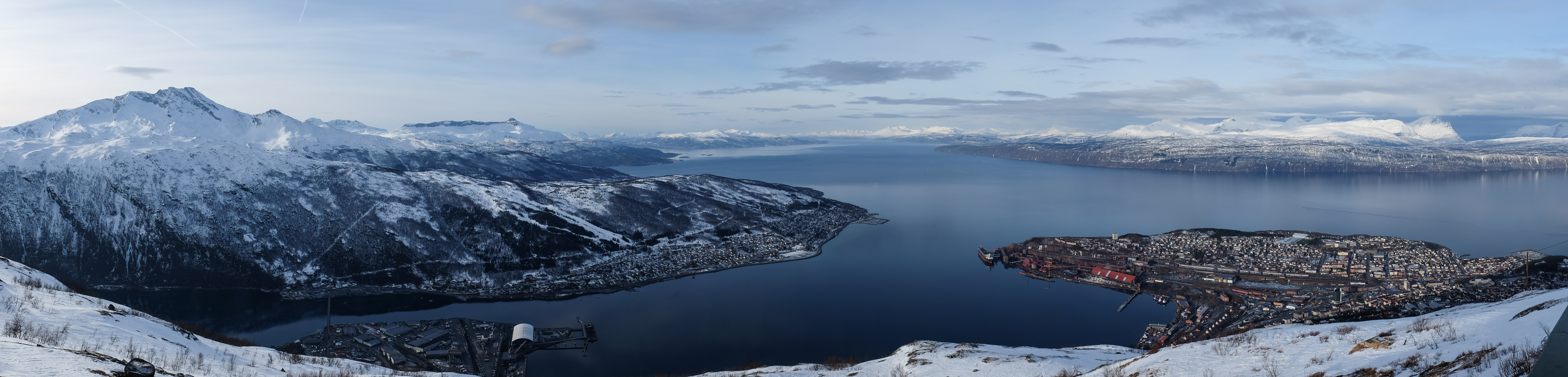 Panorama of Narvik, Norway.